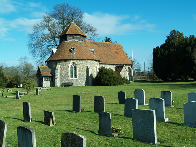 St John the Baptist Church, Little Maplestead